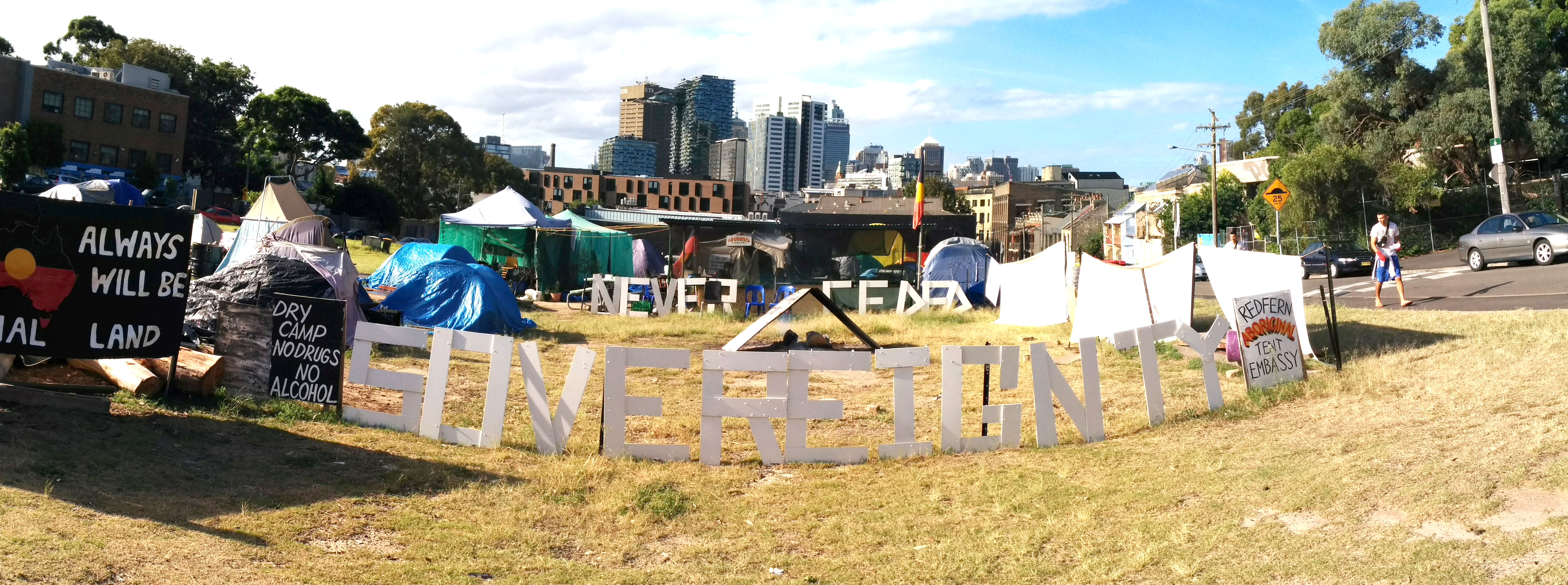 The Redfern Aboriginal Tent Embassy (RATE) as it existed on 16 March, 2015.